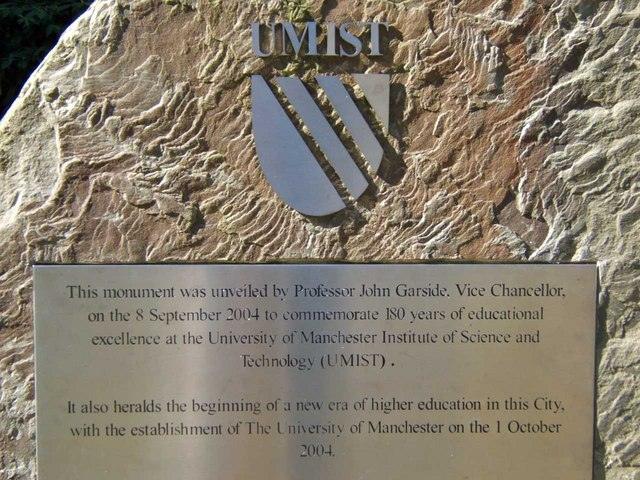 UMIST Plaque The dedication plaque to celebrate 180 years of the Manchester Institute of Science & technology on the 276312